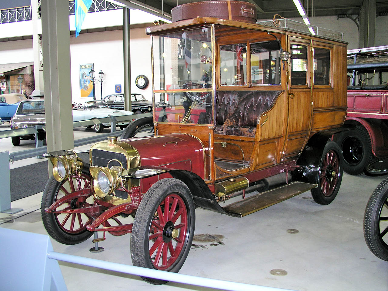 20/24 HP 4-cylinder car designed by Julien Potterat, made in Belgium by Automobiles Charles Fondu; left front-side view